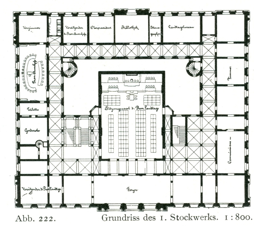 Provinzial Ständehaus in Düsseldorf, erbaut von Julius C. Raschdorff von 1876 bis 1880, Grundriss.jpg